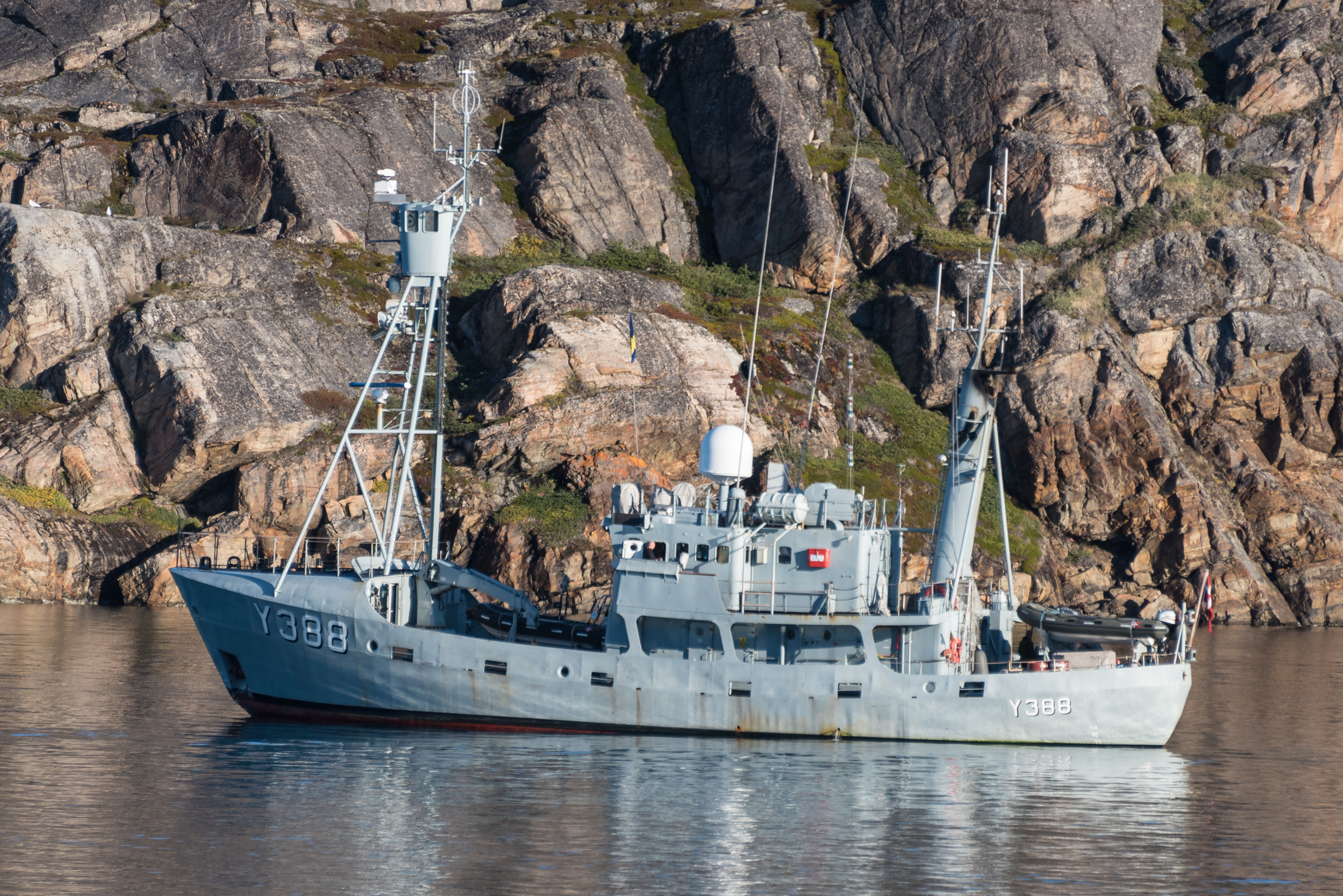 Danish Coastguard patrol ship, HDMS TULUGAQ (Y388), in Sisimiut Harbor. Greenland on September 4, 2017, prior to decommissioning.